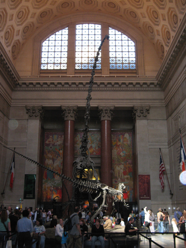 American Natural History Museum